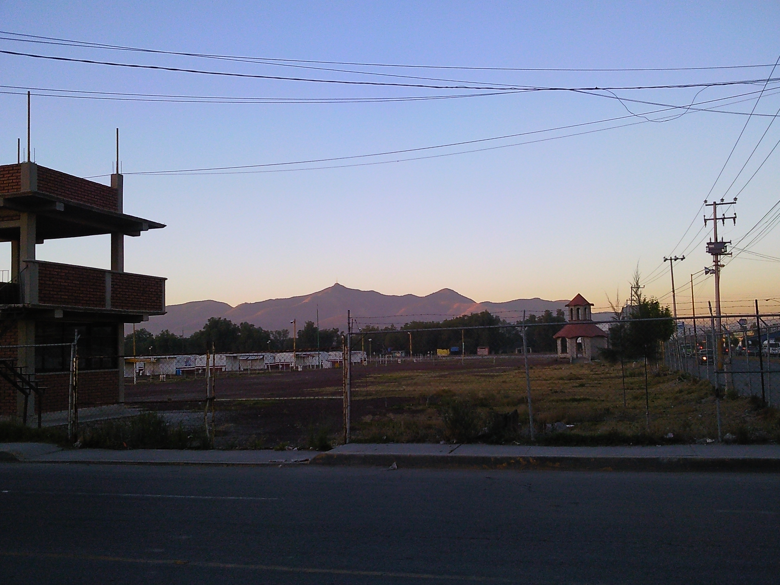 Samsung Mercado de cohetes, Tultepec